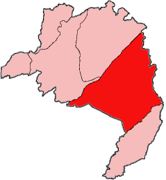 Map of Lofa County, Liberia showing Zorzor District; created with the GIMP. Made by User:Acntx.